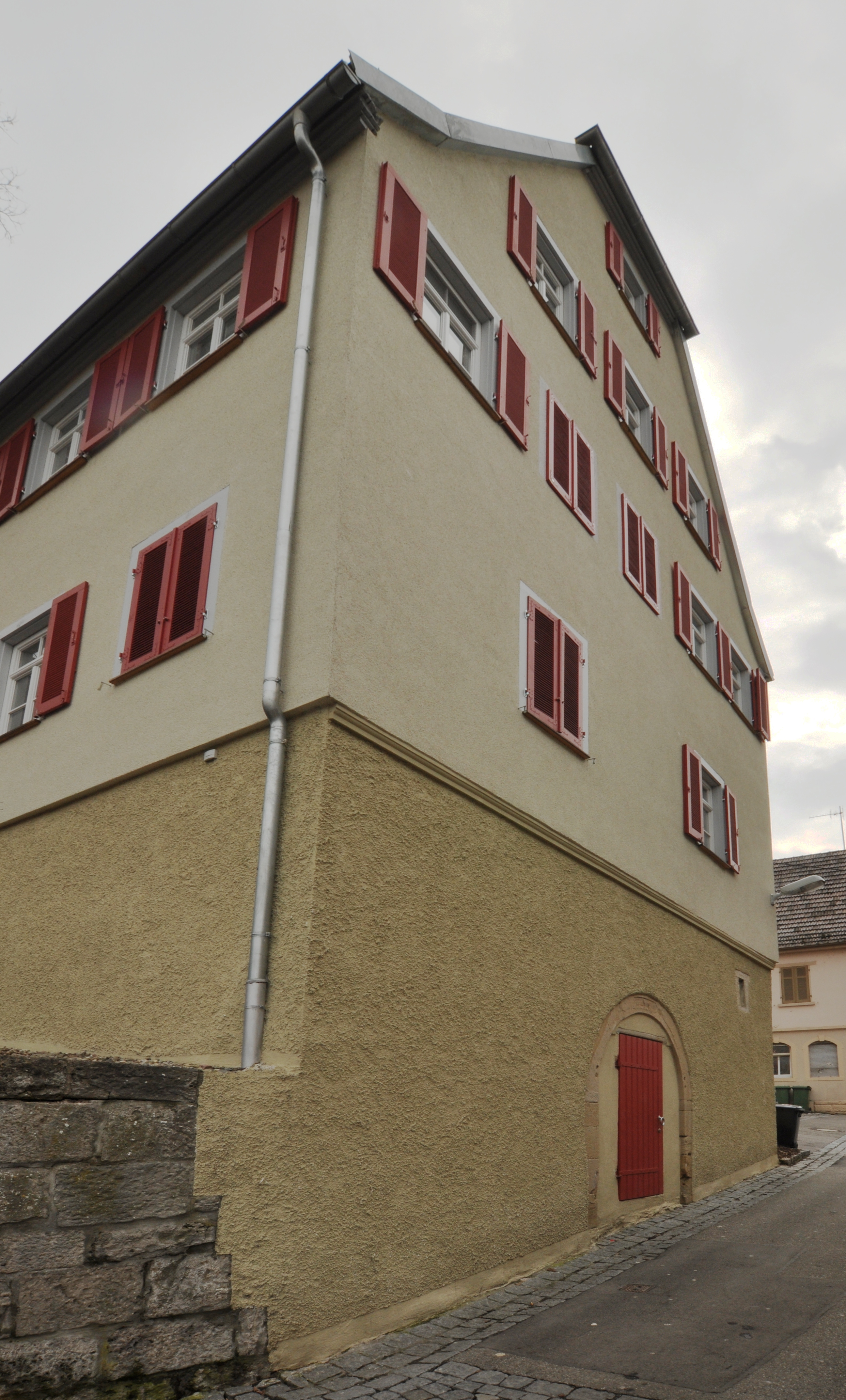 Old school house of 1807 in Beihingen am Neckar (nowadays part of Freiberg am Neckar